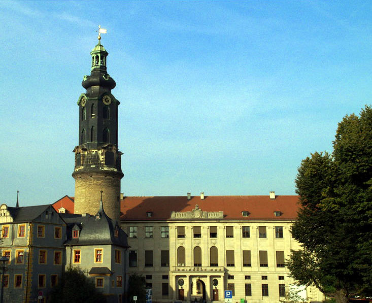 Castle of the Dukes of Sachsen-Weimar in Weimar, Germany.